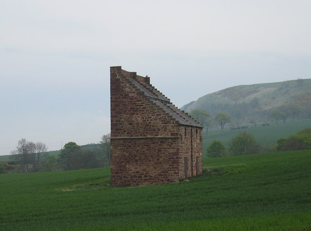 Spott Doocot. Large two-chambered lectern doocot at Spott House. Pigeons still in residence.